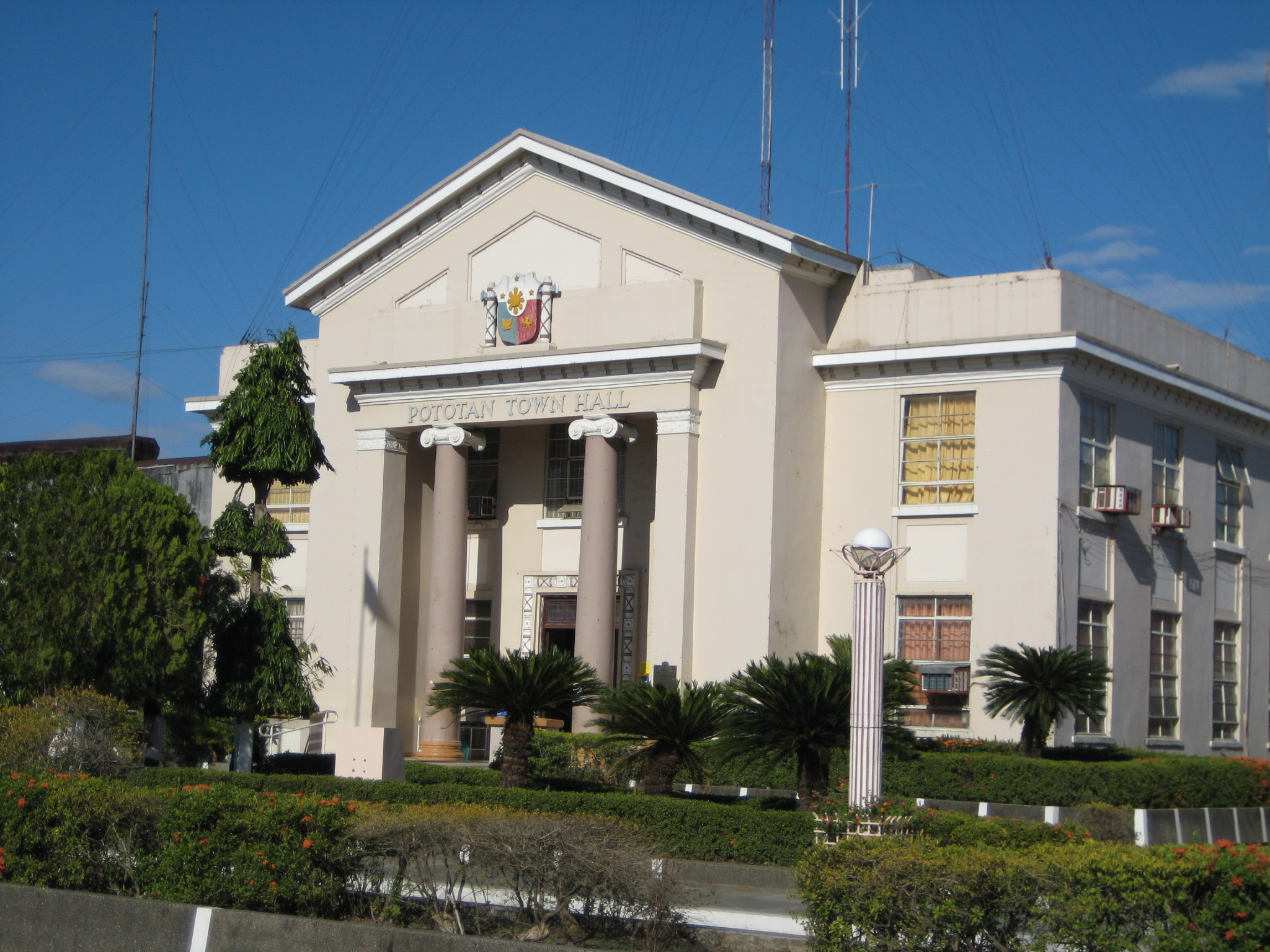 The facade of the Pototan Town Hall in Iloilo Province.